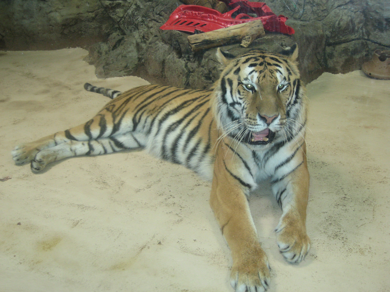 Amur (Siberian) Tiger, endangered species, at Potter Park Zoo in Lansing, Michigan